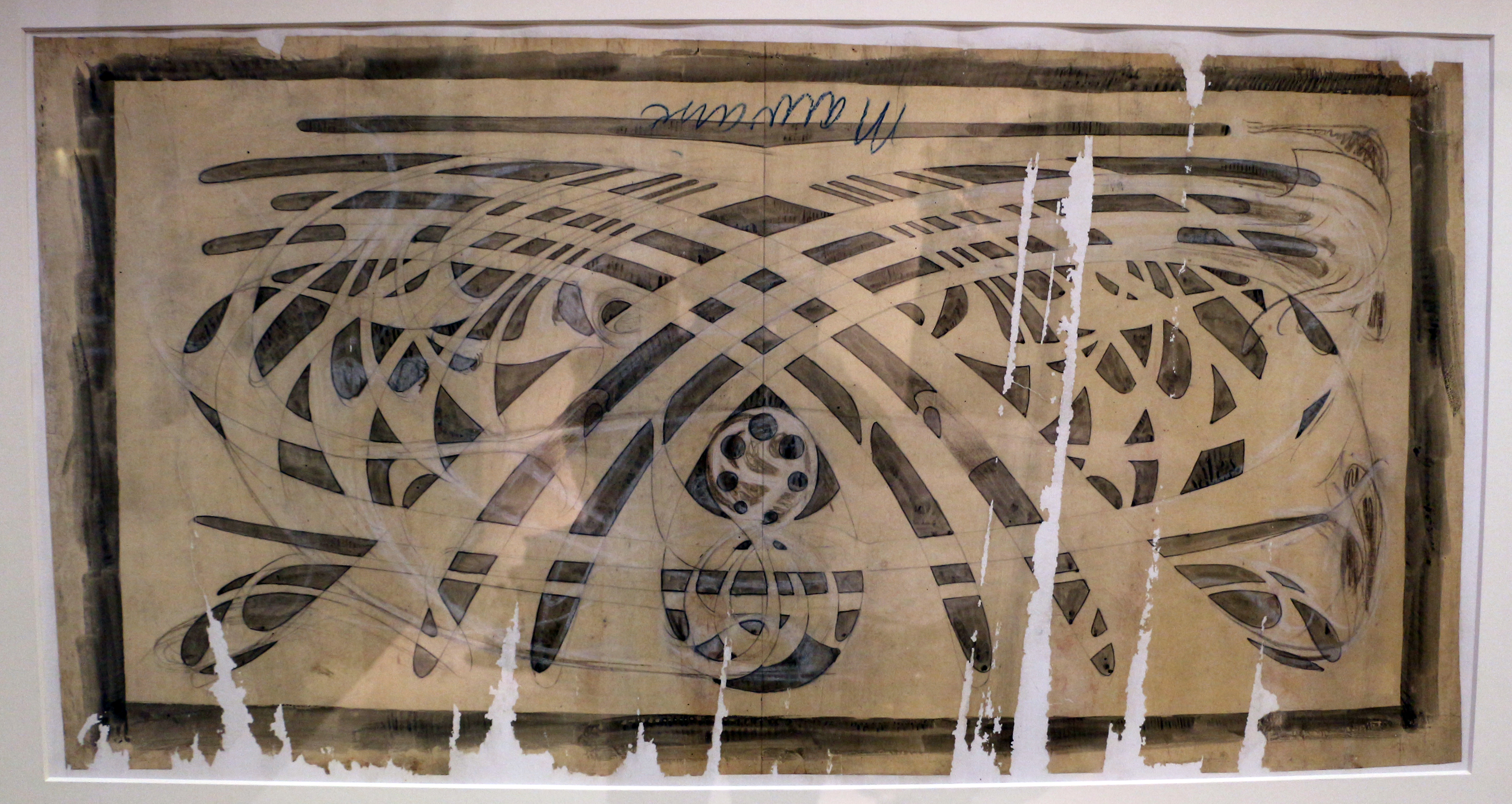 Graphic in the Musée d'Orsay